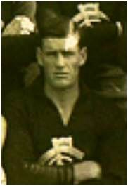 Photo of Jack Cooper cropped from the Carlton team photo taken prior to the round 8 VFL match against Melbourne on 30 June 1934 at Princes Park in Melbourne, Victoria.